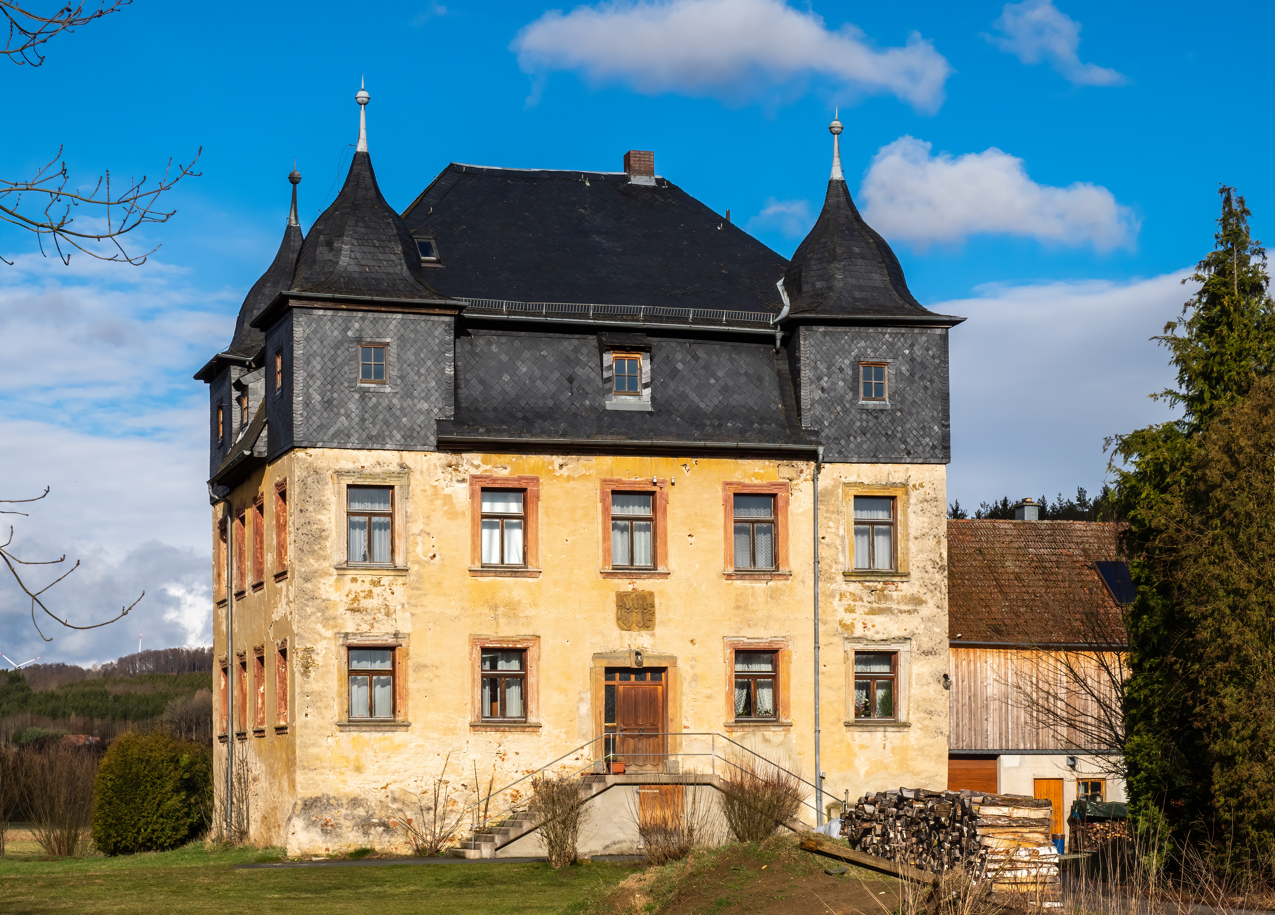 Truppach Castle near Mistelgau (Upper Franconia)